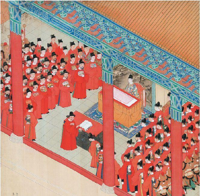 This painting is one of a series (now housed in the Palace Museum of Beijing) which portrays the career of the Ming-dynasty era Chinese official Xu Xianqing (徐顯卿). Xu was a native of Yixing (宜興 ; west of Lake Tai 太湖). He received his jinshi (進士) degree in 1568 and eventually became Vice-Minister of Personnel. His year of birth is unknown, although it is known that he died in 1602.